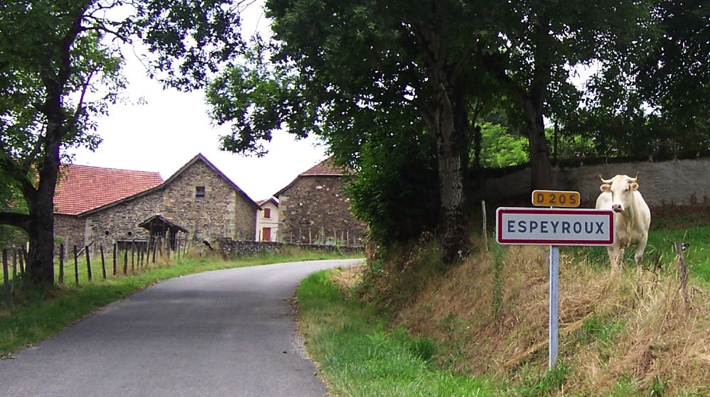 The enter of the town Espeyroux. Photo taken on the road D205 at the east of the town.